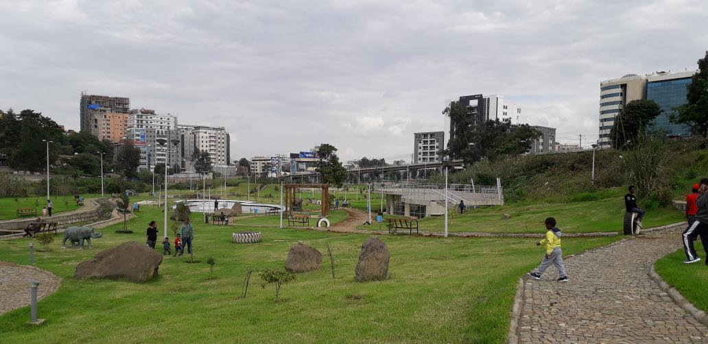 Addis abeba public park